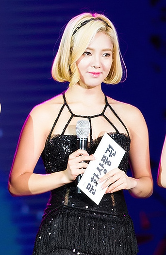 Hyoyeon at MBC Radio DJ Concert on September 6, 2015.